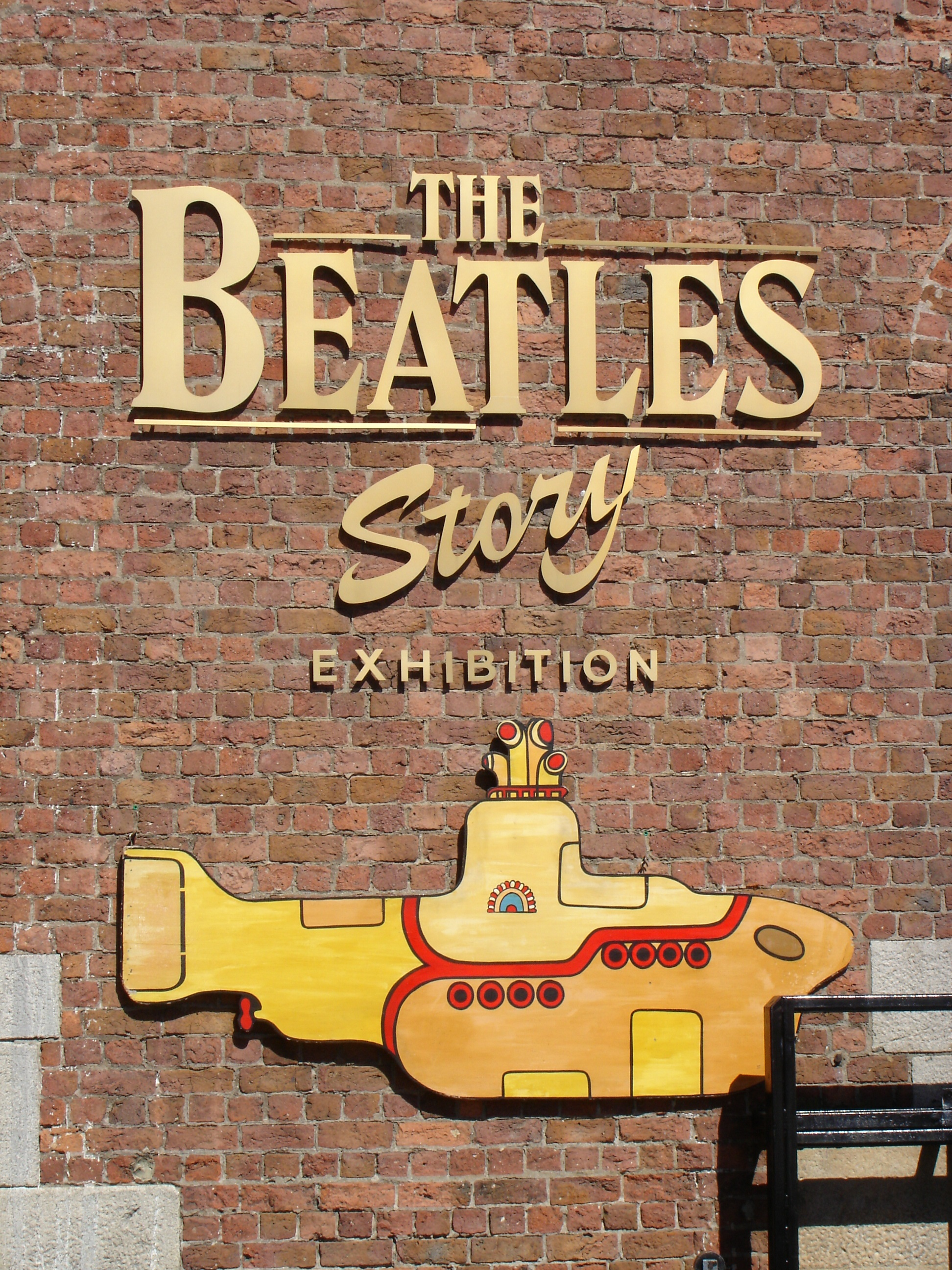 Entrance to "The Beatles Story" at Albert Dock in Liverpool, England.